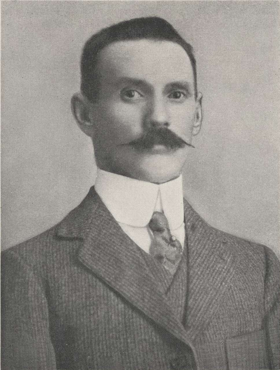 Portrait of John T. Tunney (1870–1929)